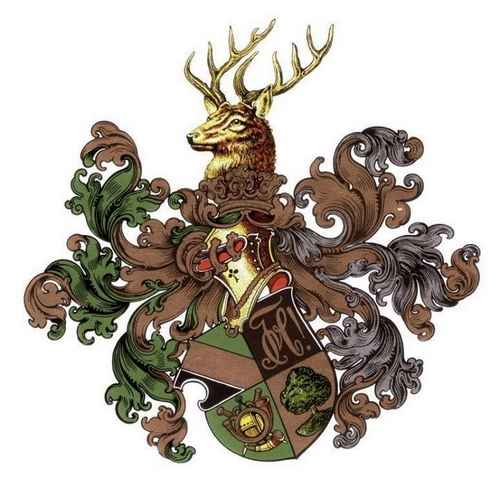 Fraternity crest of the Corps Hubertia Freiburg in color.